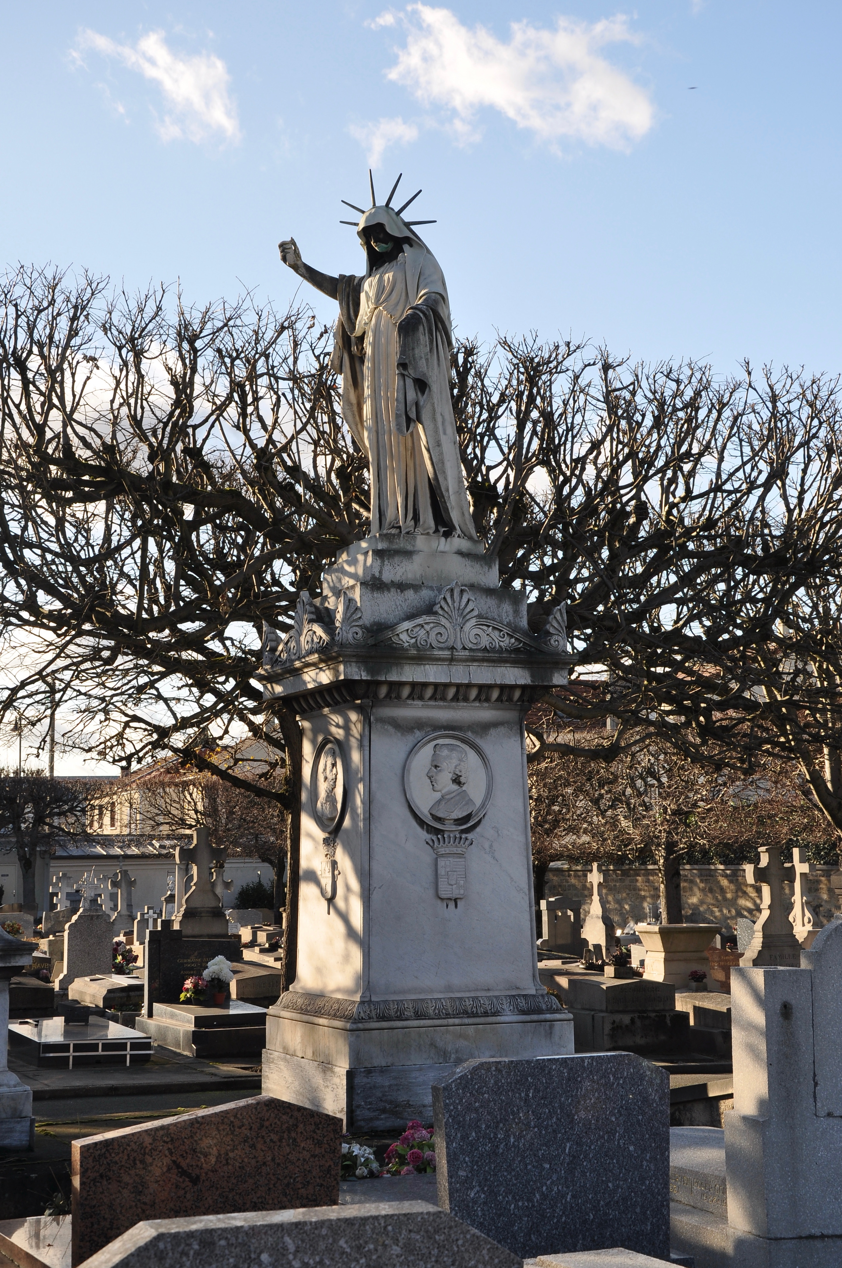 Sepulchral monument says Monument of Three Children of Queen Marie Christine of Bourbon to the Former Cemetery of Rueil-Malmaison, department of the Hauts-de-Seine in France. The monument built by the sculptor Moratilla in 1866 in homage to three sons of the queen died in Rueil in exile. The monument is listed in the inventory of the cultural heritage.